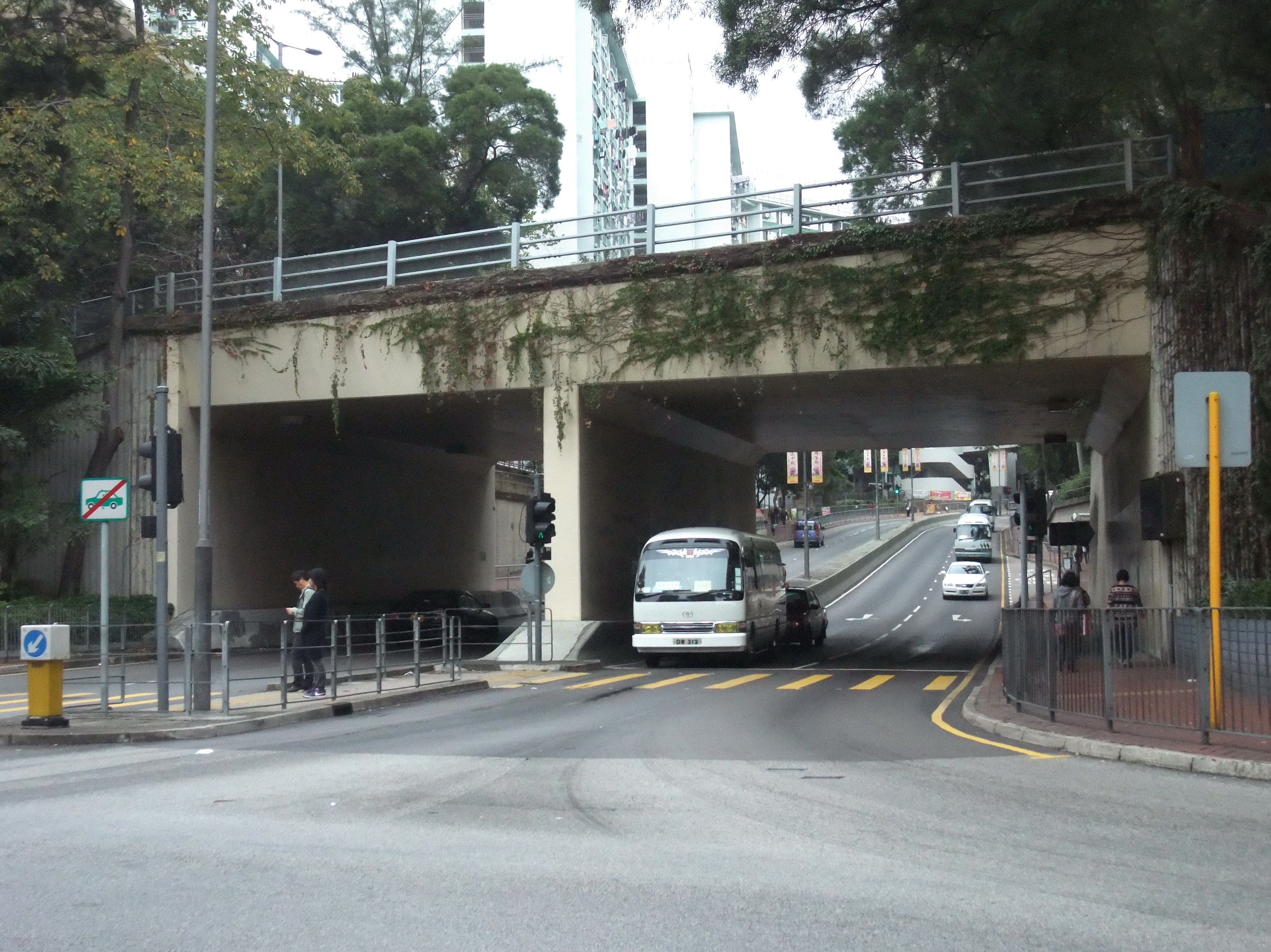 Texaco Road North overpass at Shek Wai Kok Road, Tsuen Wan, Hong Kong.